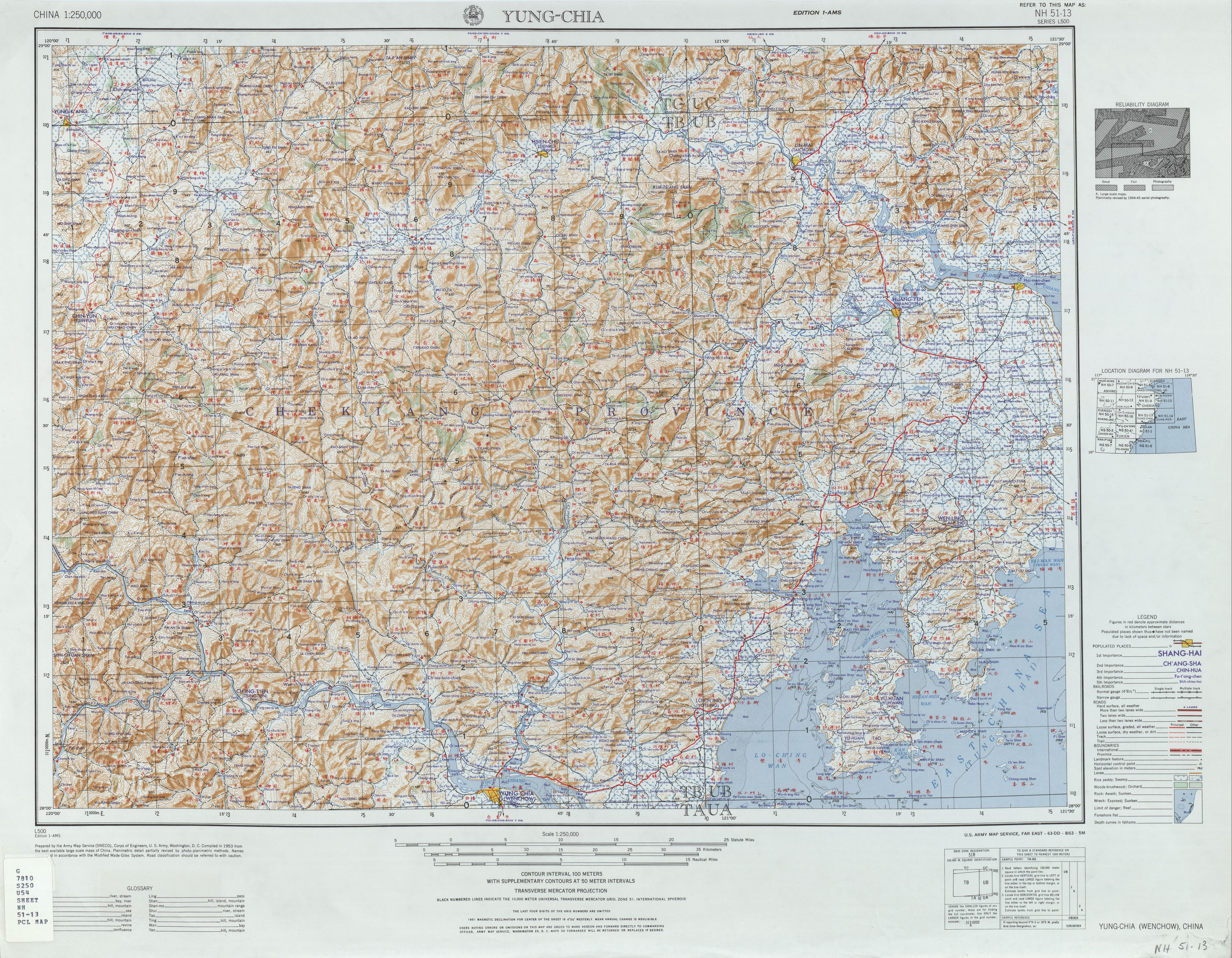 Map of the Wenzhou (Yung-chia, Wenchow) area, Zhejiang